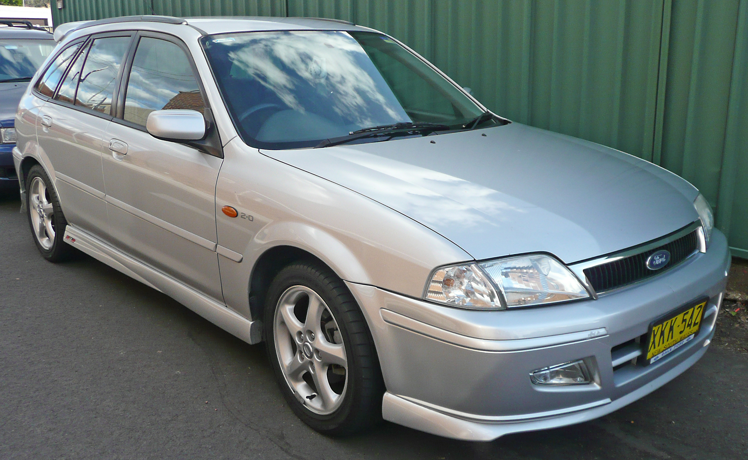 2001–2002 Ford Laser (KQ) SR2 hatchback. Photographed in Sutherland, New South Wales, Australia.